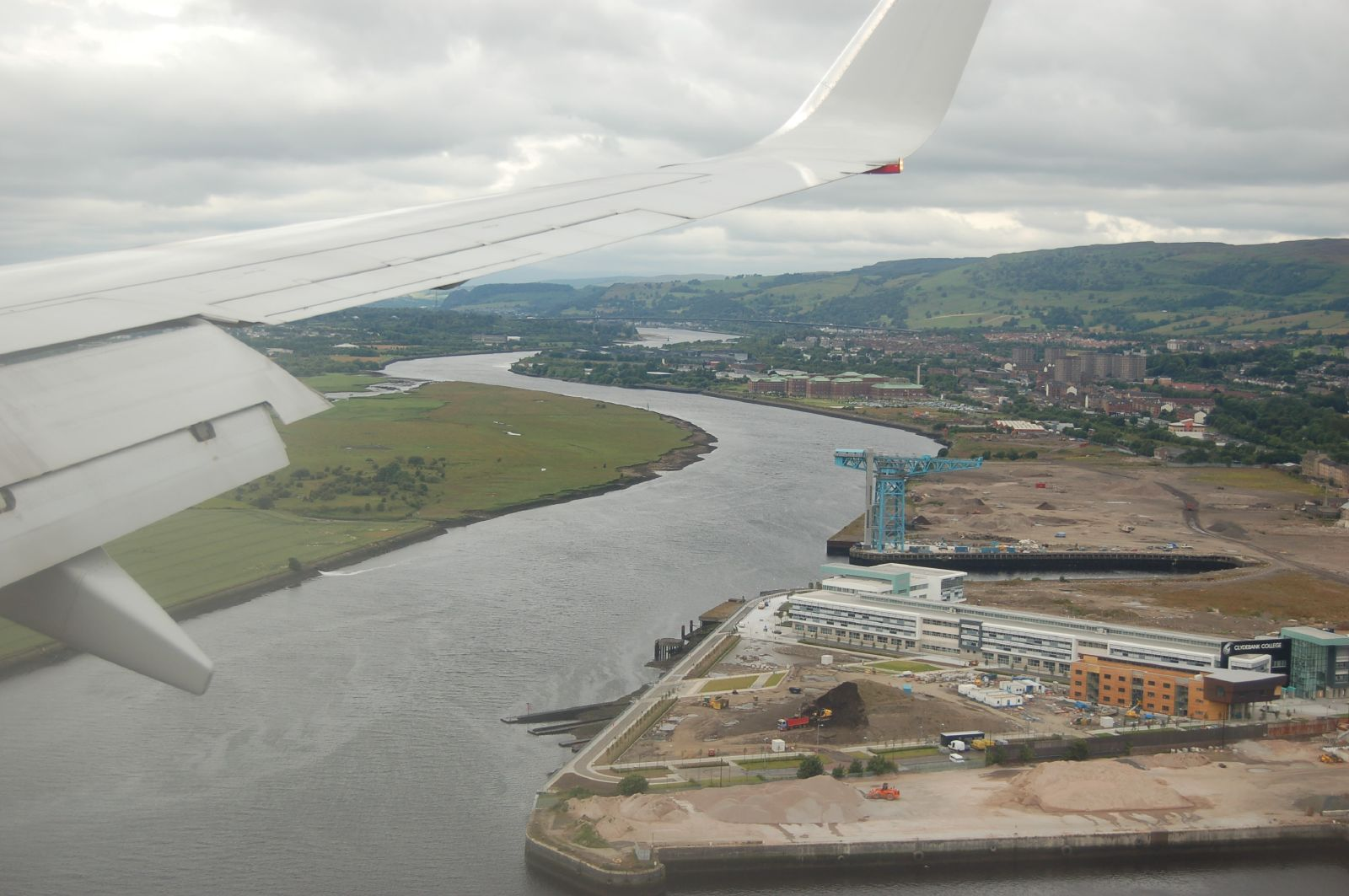 Aerial photograph of the River Clyde at Clydebank showing the site of the former John Brown Shipyard. The new Riverside campus of Clydebank College is in the foreground, with the restored Titan Crane and the Golden Jubilee Hospital beyond.